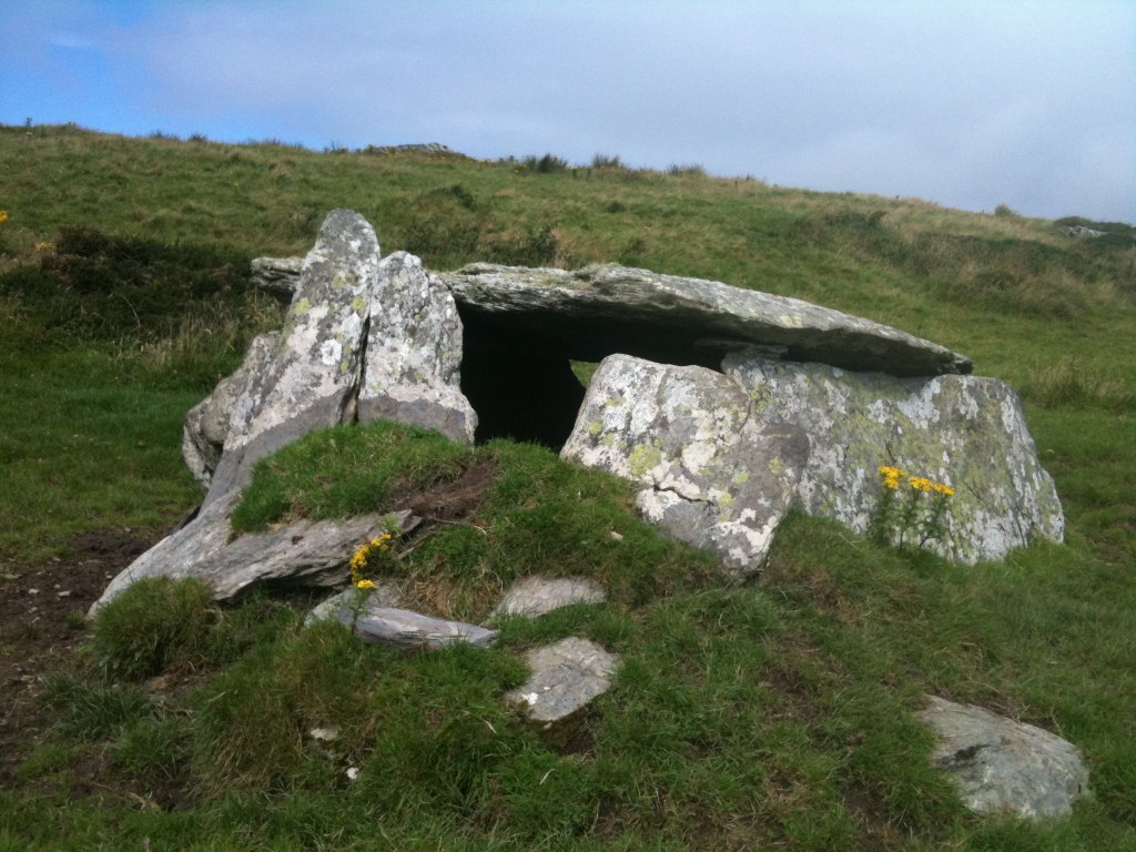 Dolmen Rock - ancient burial site - north of Tinnes, Valentia Island, County Kerry, Ireland